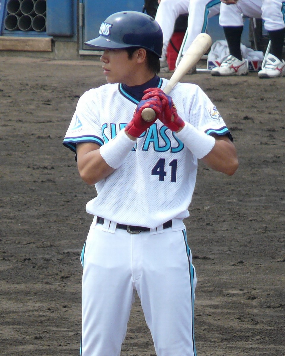 Hiroyuki Oze, outfielder of the Surpass, at Maishima Baseball Stadium.